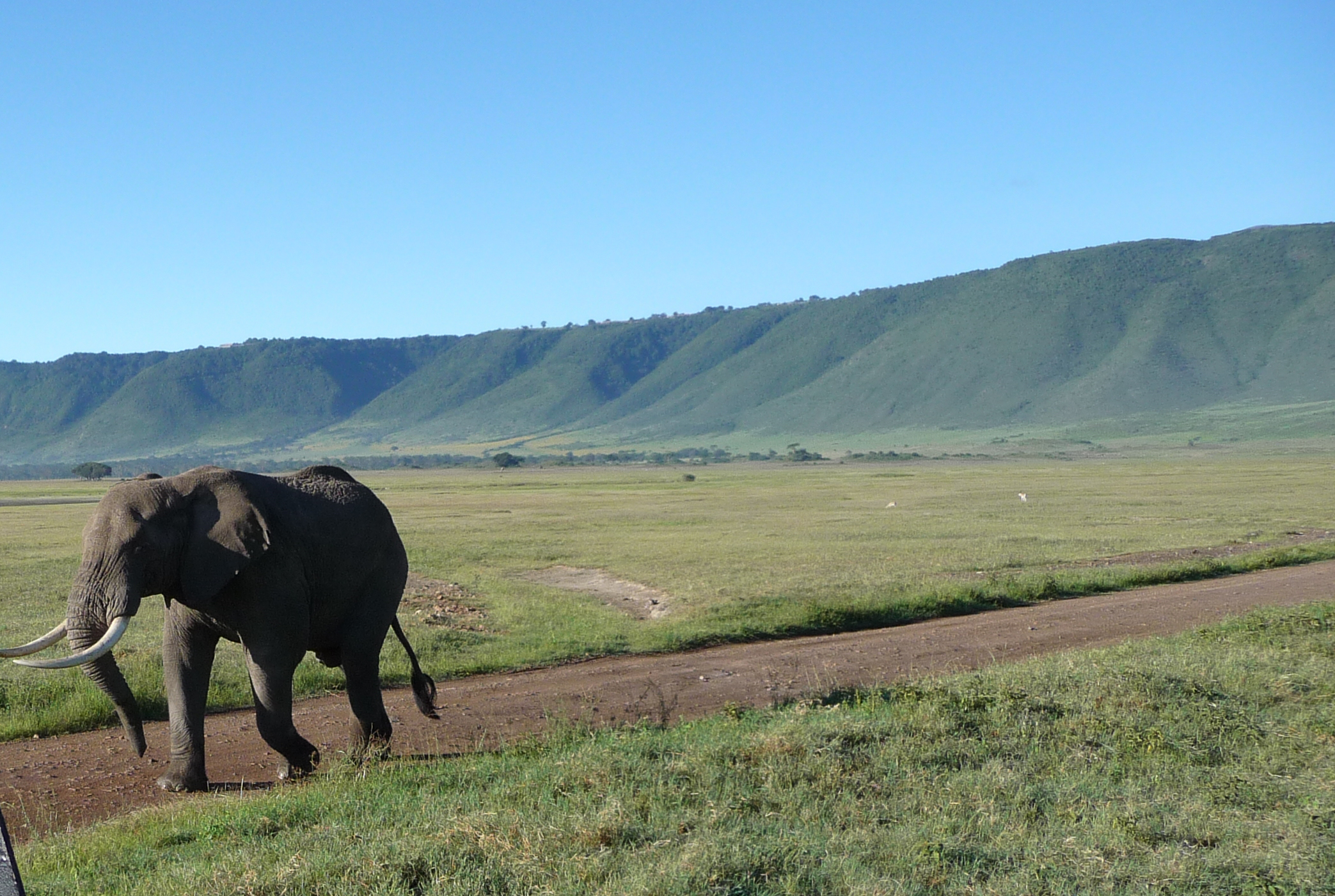 Elephant in the crater